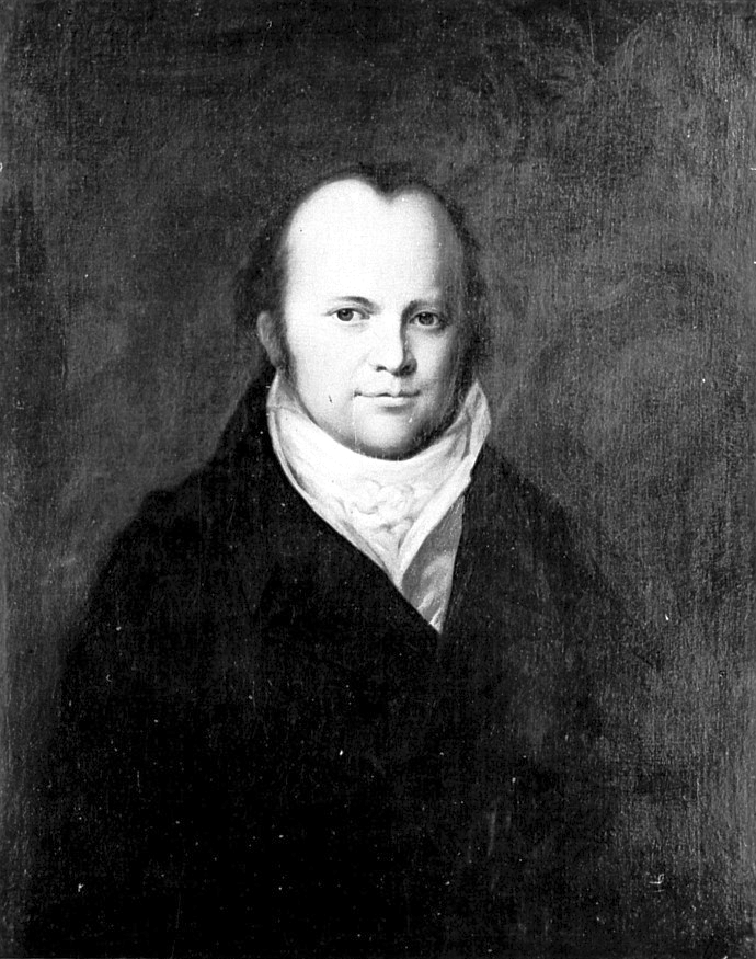 Julius Bernd Engelmann (1773-1844), Father of George Engelmann